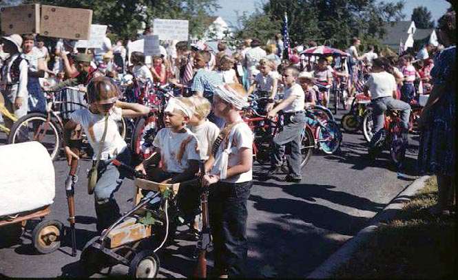 Colonial Hills 1959 Independence Day Parade by Paul Snouffer. No copyright asserted and permission to use on Wikipedia by John Snouffer.